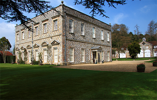 Little Durnford Manor House Built in the late C17, the manor house at Little Durnford remained unaltered until remodelling took place in about 1720-40, and again towards the end of the C18. The chequered stonework is of limestone and flint, with ashlar window surrounds. The house is Grade I Listed, and the stables to the right are Grade II.